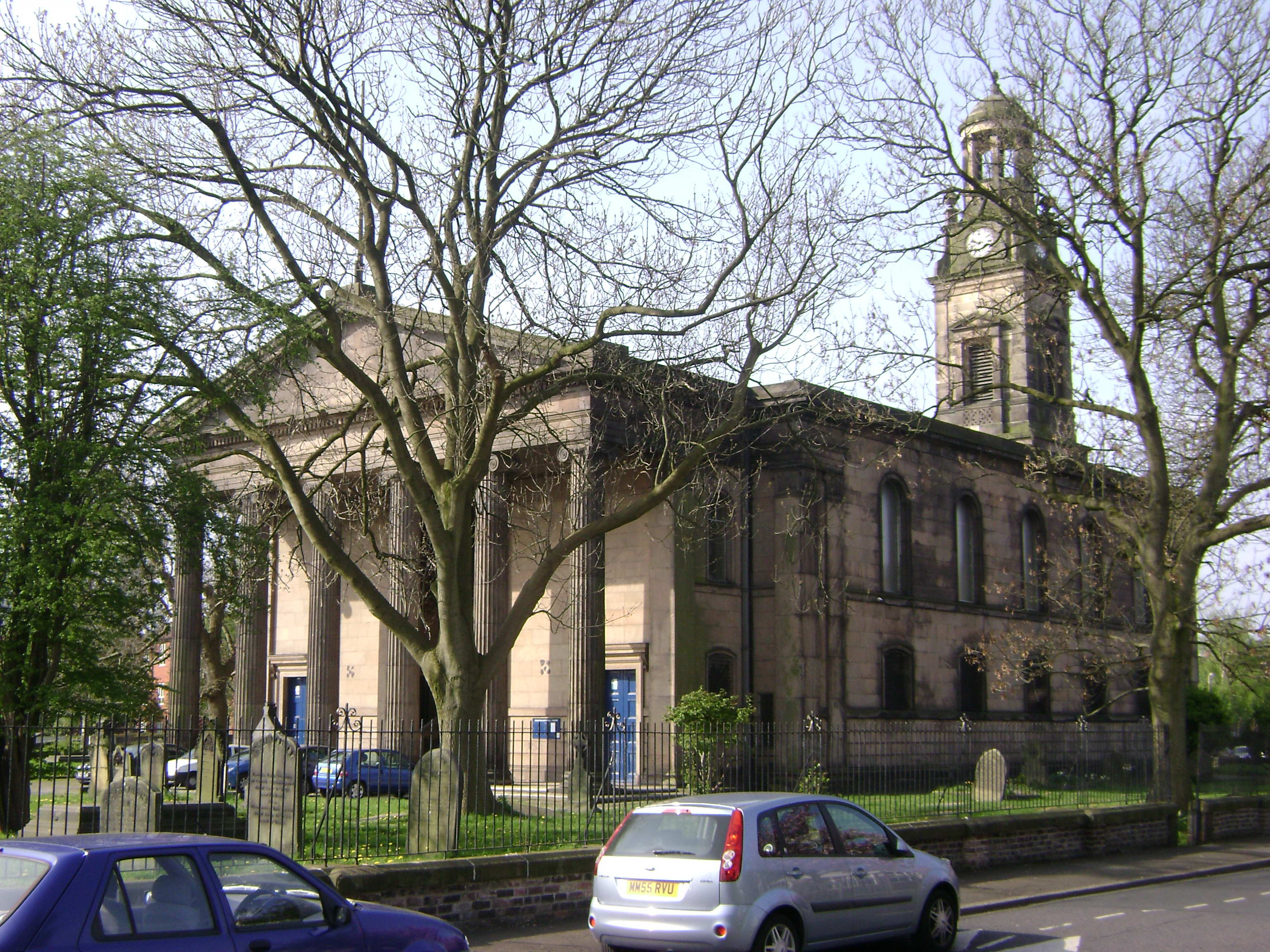 St Thomas's parish church, Stockport, Greater Manchester, seen from the northeast from Marriott Street